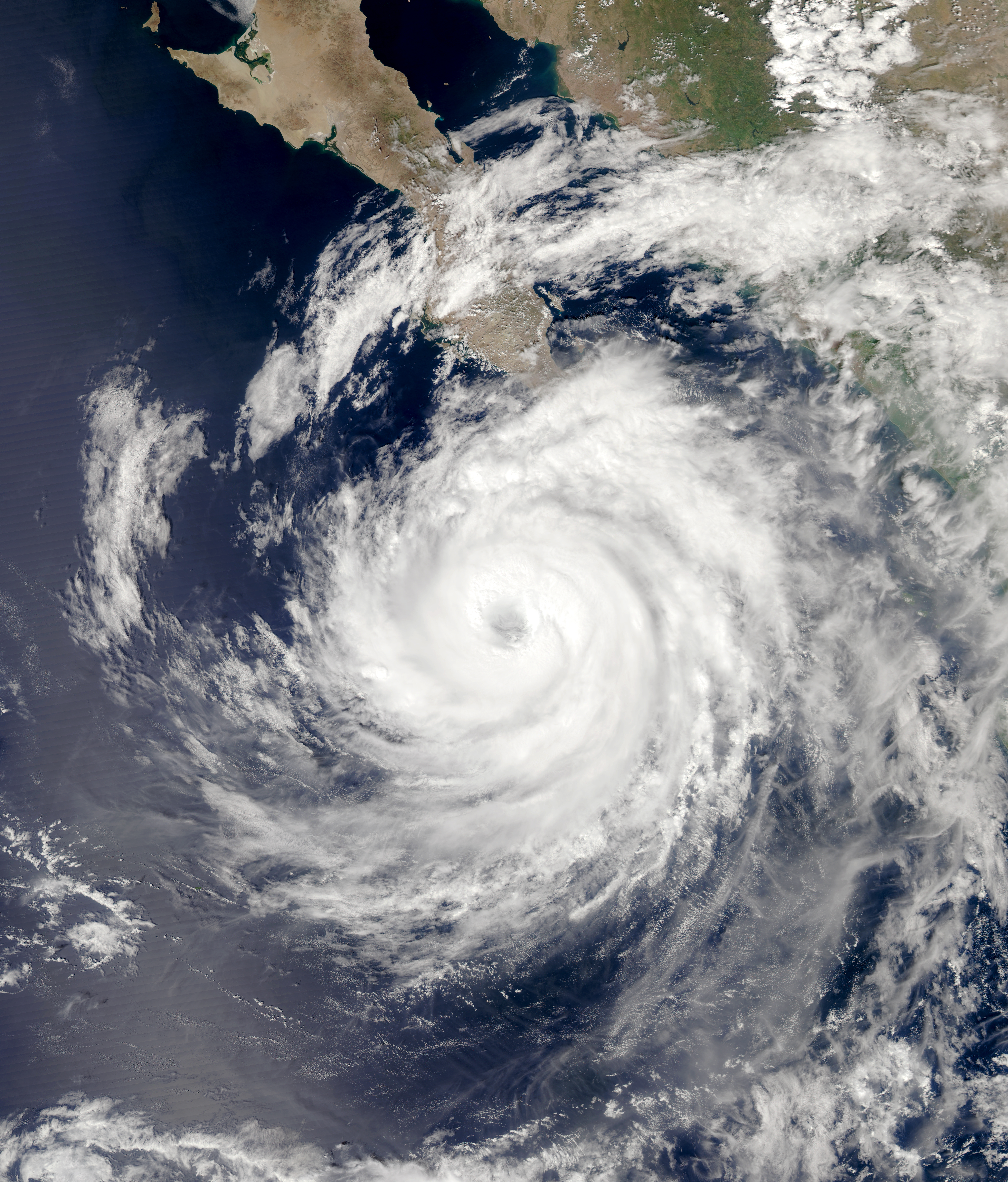 This image of Hurricane Otis was captured at 2051 UTC on September 30, 2005 by the MODIS instrument on NASA's Aqua satellite. At the time, Otis was located south of Mexico with maximum sustained winds of 95 mph (150 km/h) and a minimum pressure of approximately 977 mb.